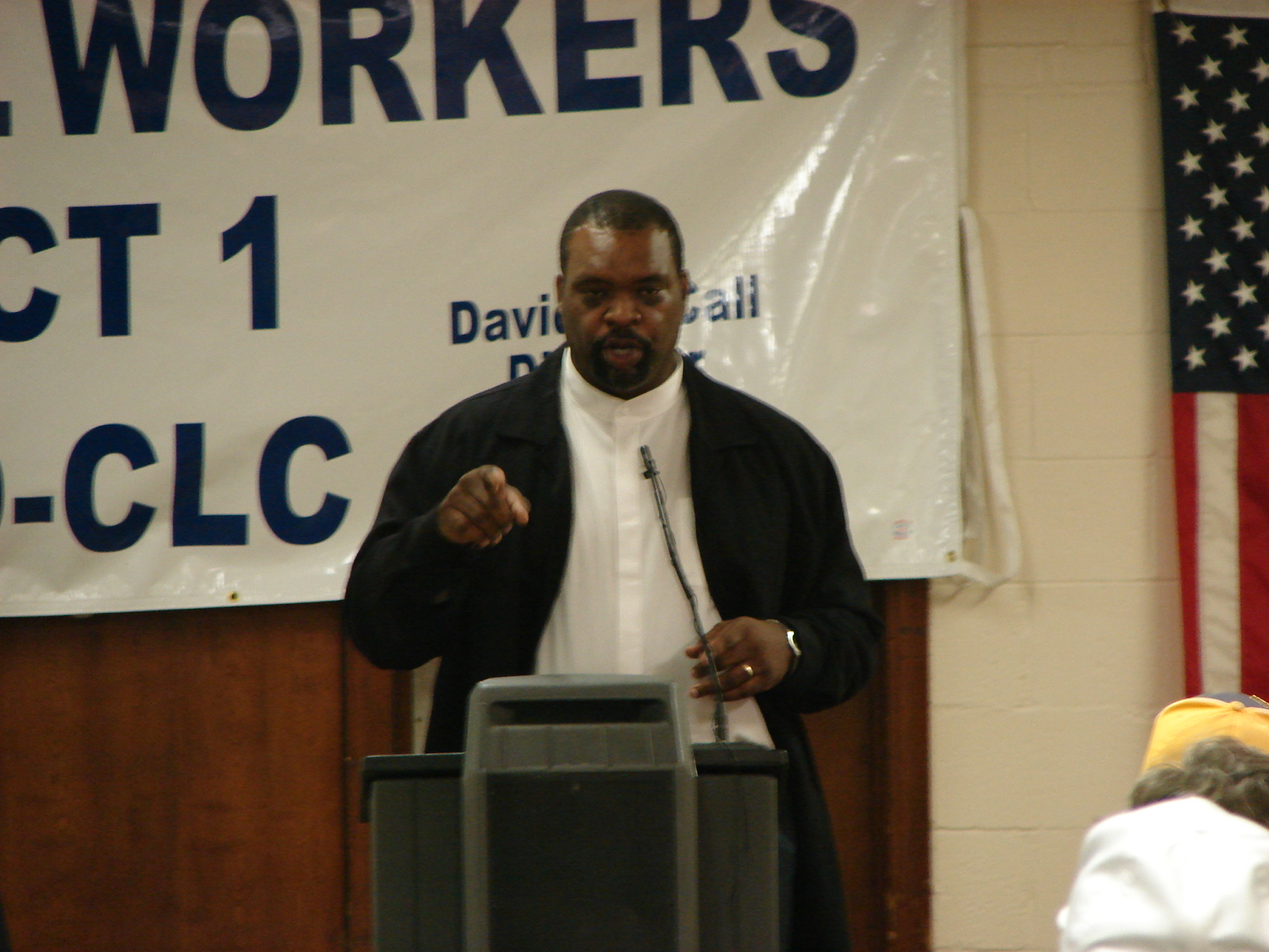 Former Pittsburgh Steeler and New England Patriot, Edmund Nelson.